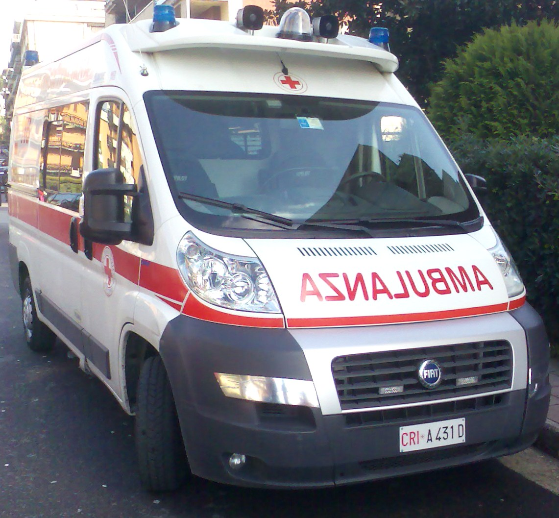 Fiat Ducato Ambulance, with "AMBULANZA" in mirror writing ("AZNALUBMA")